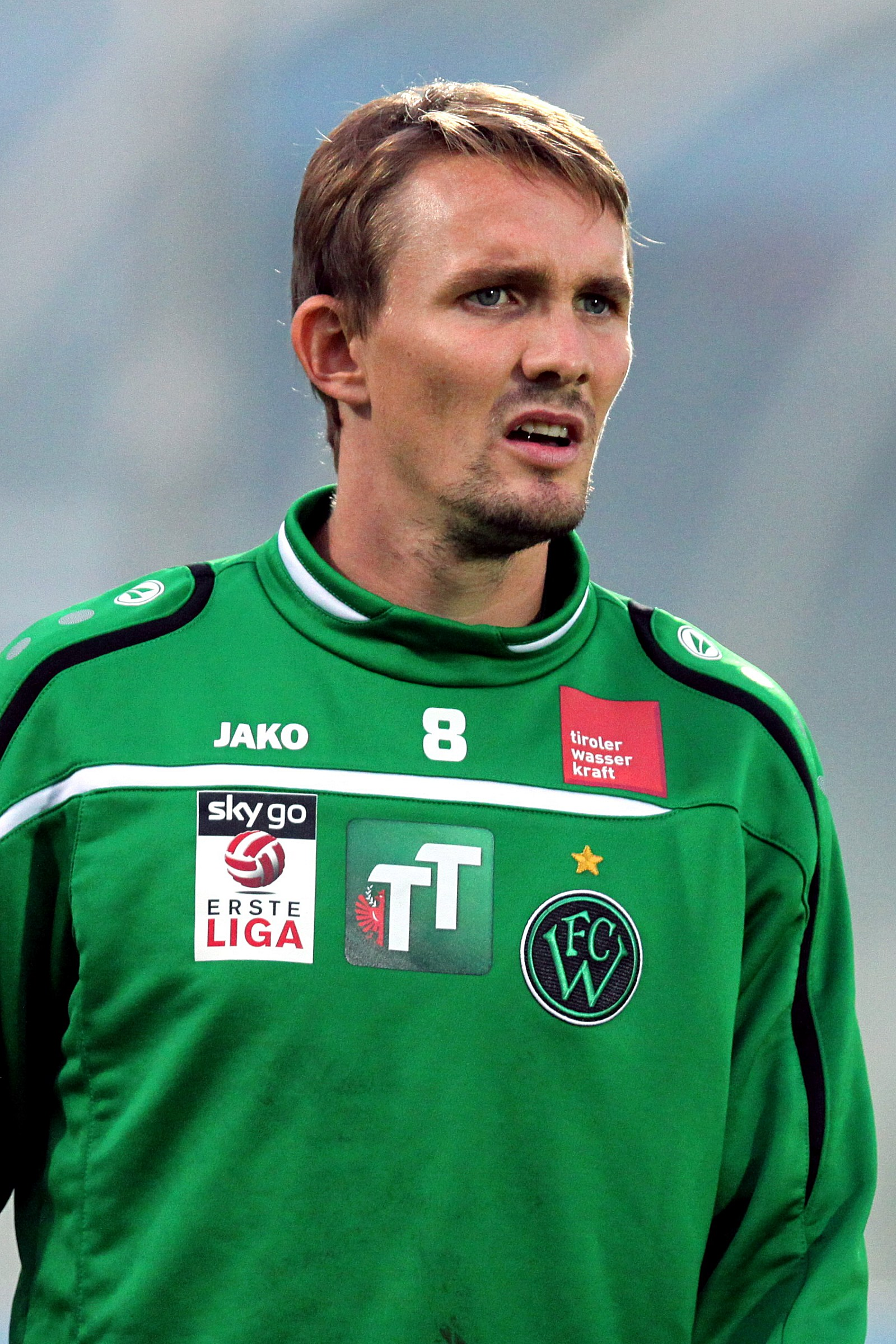 Match of the Erste Liga – SC Wiener Neustadt (blue/white shirts) vs. FC Wacker Innsbruck (green/black shirts) 1–2 (0–1) on 2015-09-15 in the Stadion in Wiener Neustadt – The photo shows Andreas Hölzl (FC Wacker Innsbruck).